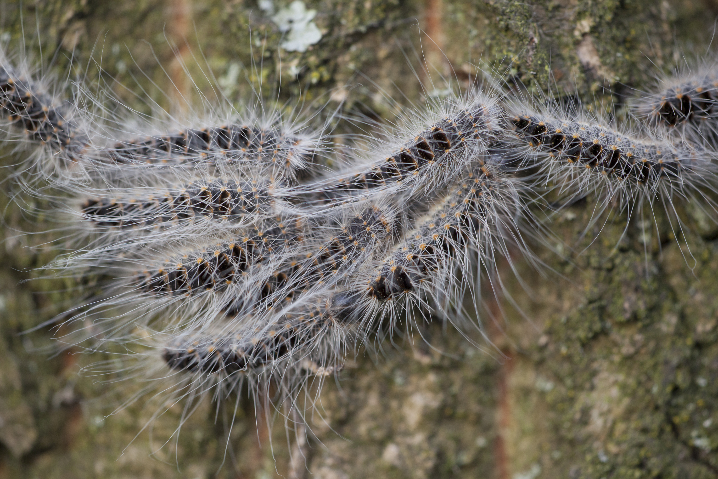 Thaumetopoea processionea, Eikenprocessierups, Oak Processionary